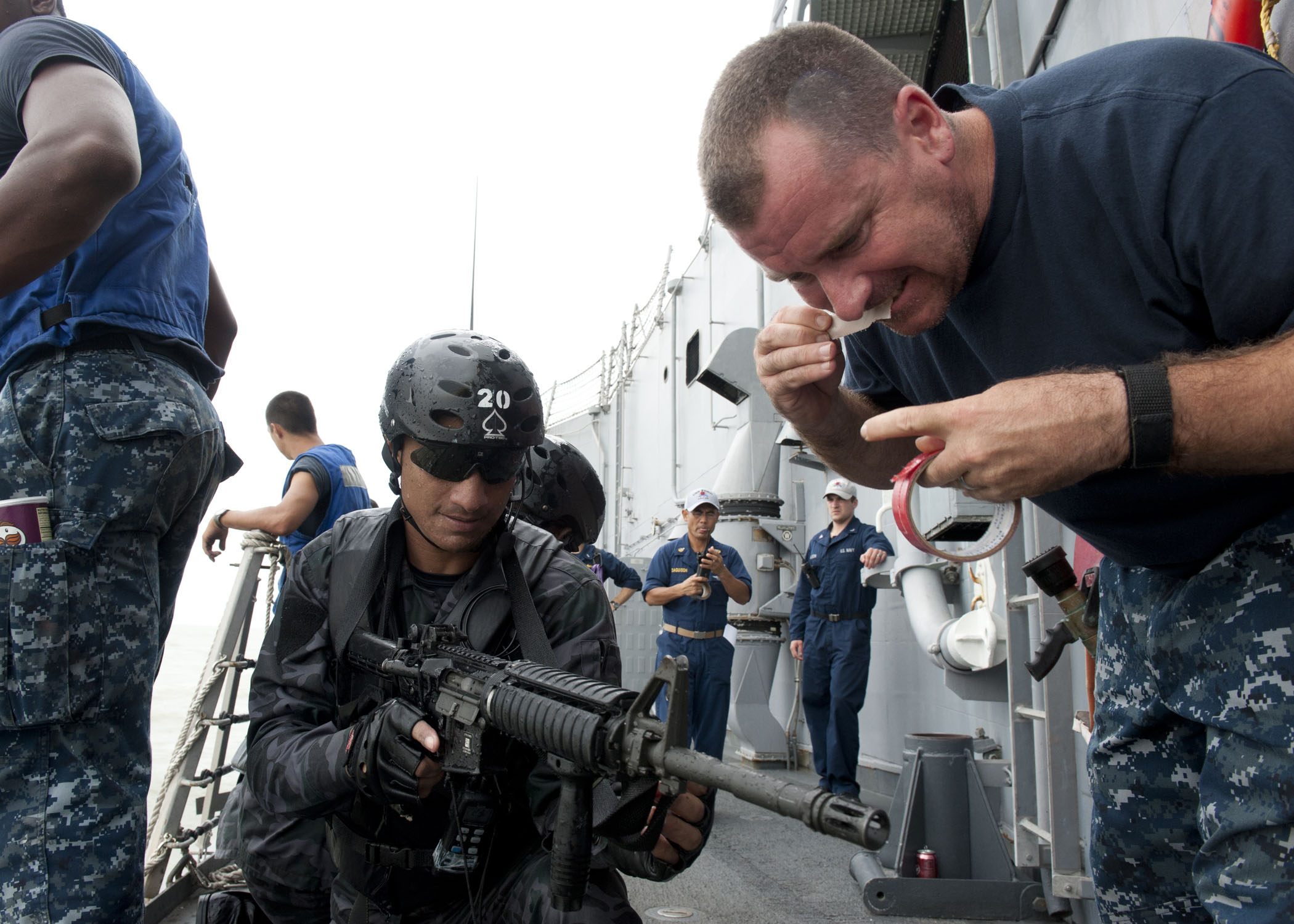 BAY OF BENGAL (Sept. 21, 2011) Chief Master at Arms Lee McGuire, assigned to the guided-missile frigate USS Ford (FFG 54), marks a Bangladesh navy Special Warfare and Diving Salvage (SWADS) sailor's rifle as clear and safe during a visit, board, search and seizure exercise as part of Cooperation Afloat Readiness and Training (CARAT) Bangladesh 2011. CARAT is a series of bilateral exercises held annually in Southeast Asia to strengthen relationships and enhance force readiness. Bangladesh is participating in this exercise for the first time. (U.S. Navy photo by Mass Communication Specialist 1st Class Lowell Whitman/Released)